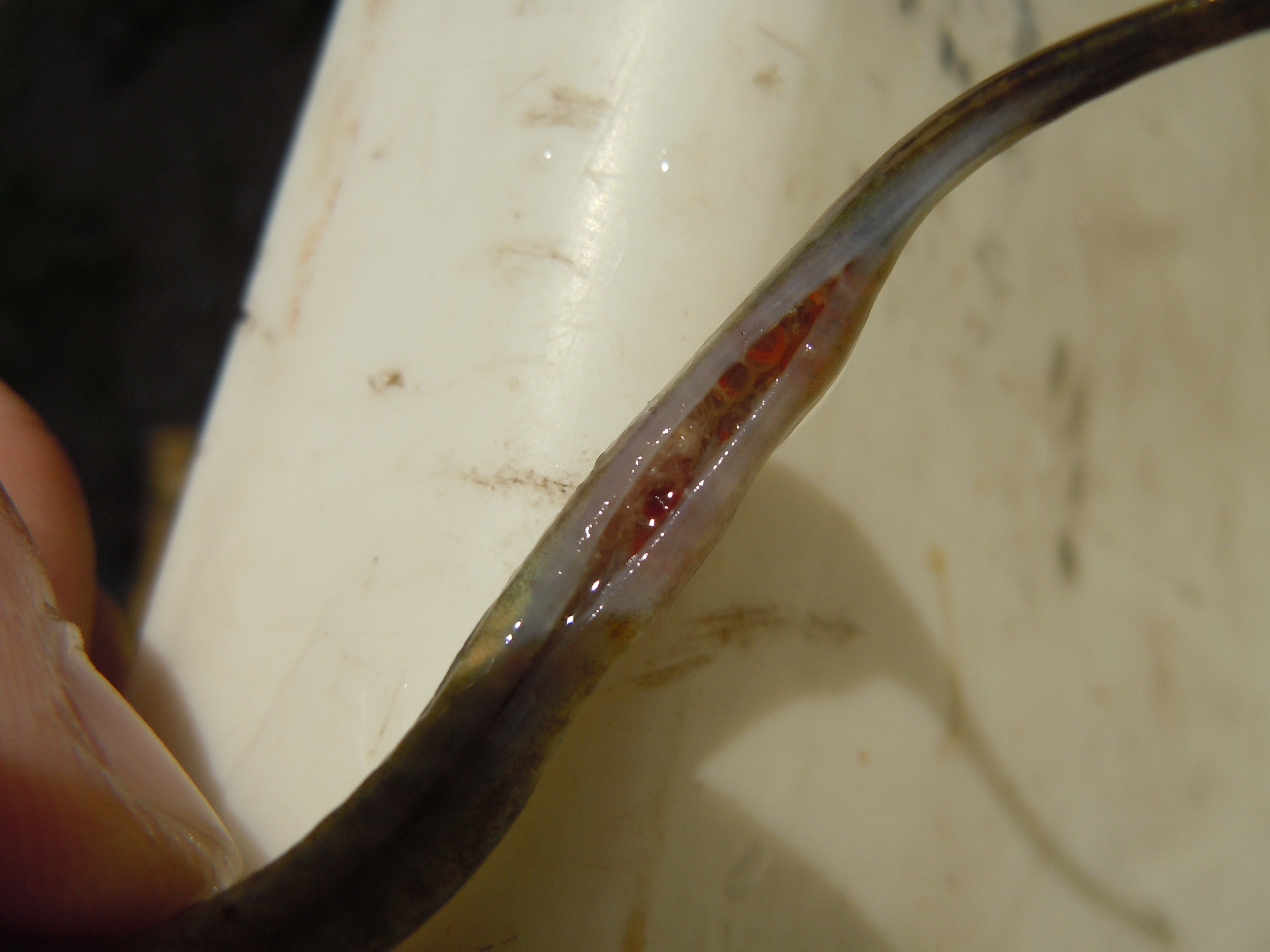 The subcaudal pouch of the male of the black-striped pipefish (Syngnathus abaster) from the Hryhorivsky Estuary, Ukraine